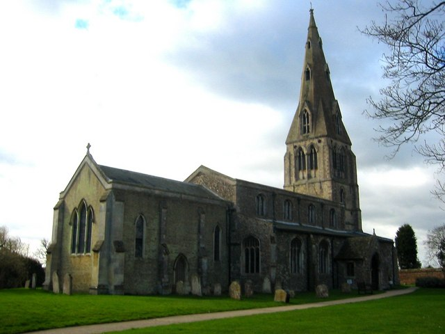 St Mary Magdalene Warboys Medieval church with a 19thC brick chancel